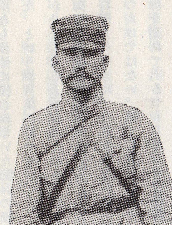 Naganuma Hidehumi is an Imperial Japanese Army Lieutenant General